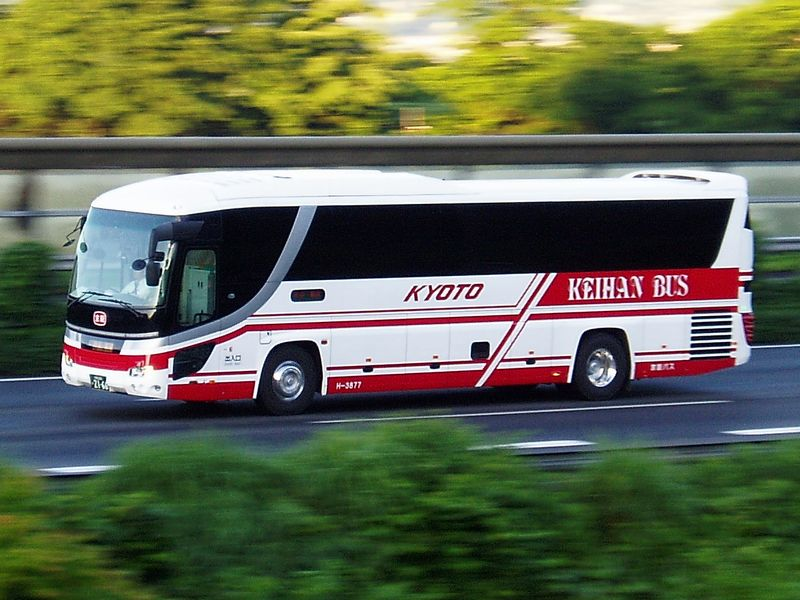 Keihan Bus H-3877 "Kyoto" HINO PKG-RU1ESAA at Tomei Expway